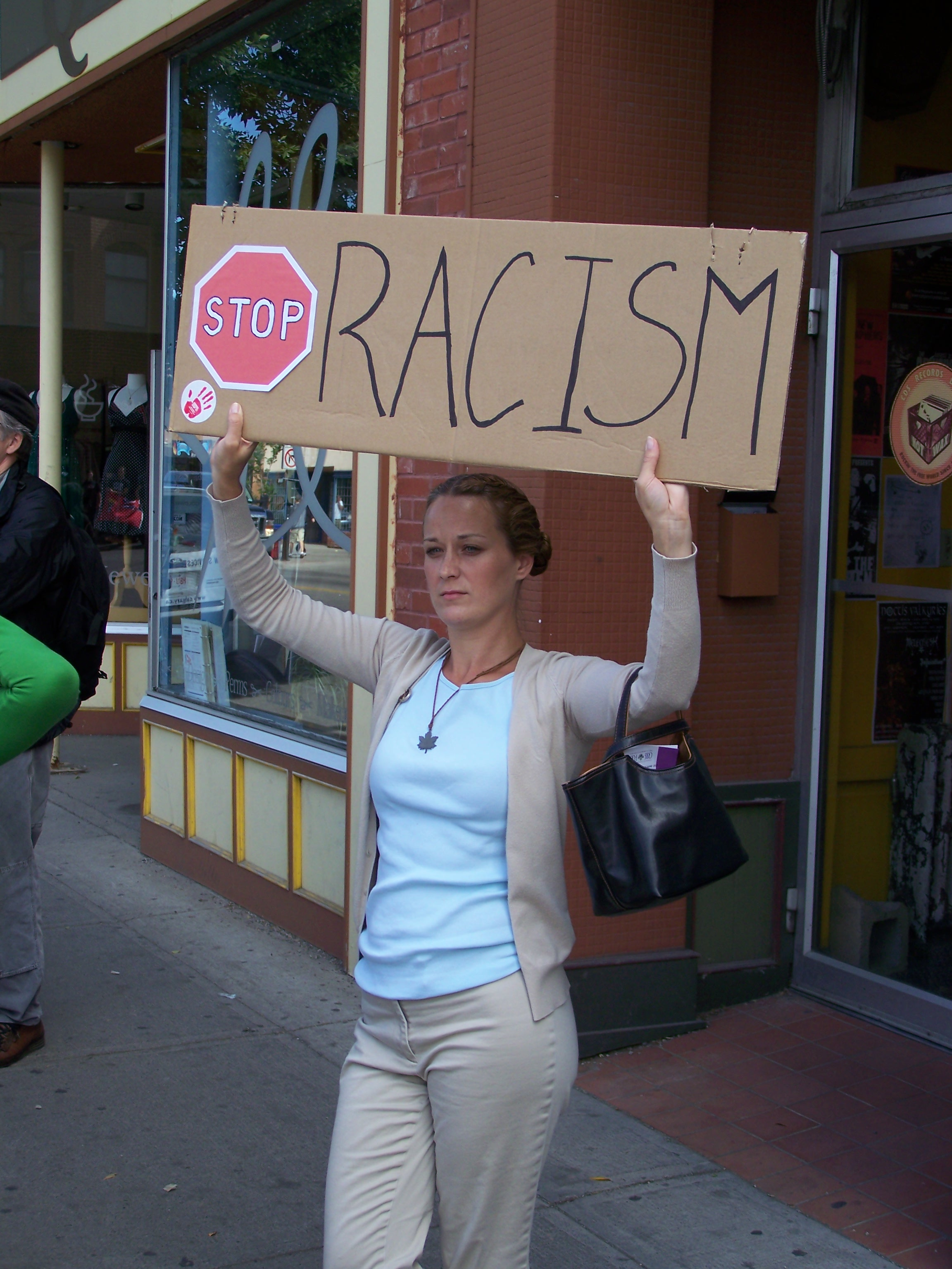 People protest against racism in the Kensington community of Calgary, Alberta.